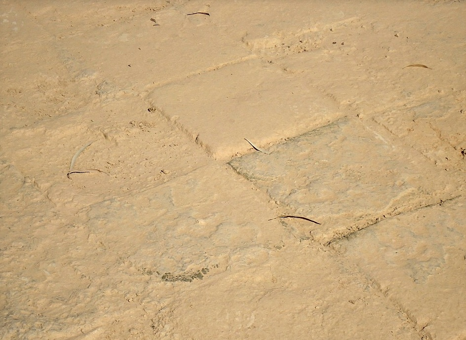 These are original tiles of the processional street at Babylon city. Neo-Babylonian period, reign of Nebuchadnezzar II, 605-562 BCE.